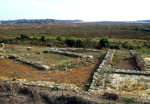 Roman location/station of "Quinta da Abicada" near Mexilhoeira Grande, parish of Portimão. In the background the "Ria de Alvor".